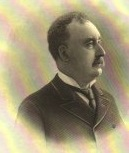 Photo of John F. Finerty (1846-1908), war correspondent for the Chicago Times during the Great Sioux War of 1876-1877.